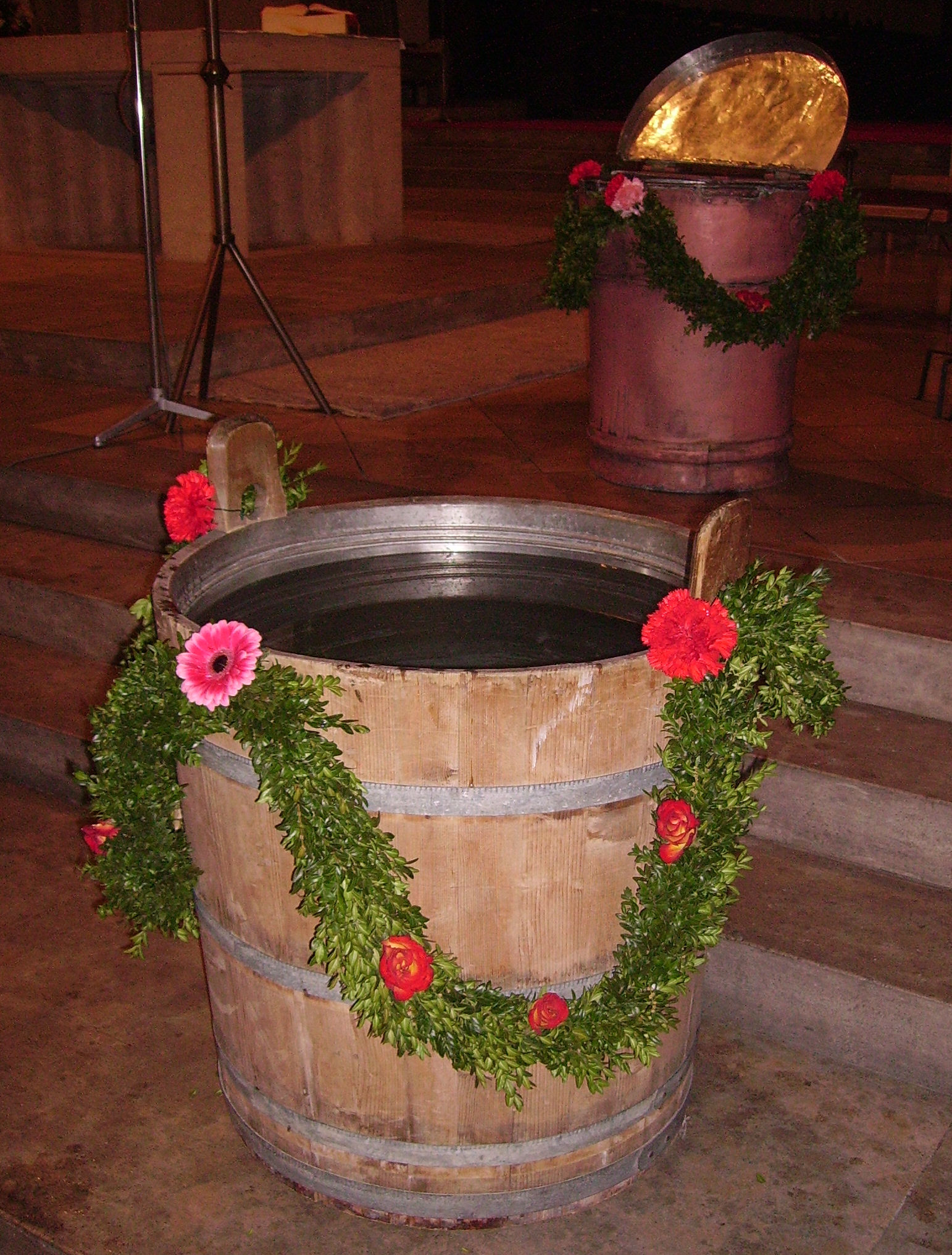 holy water